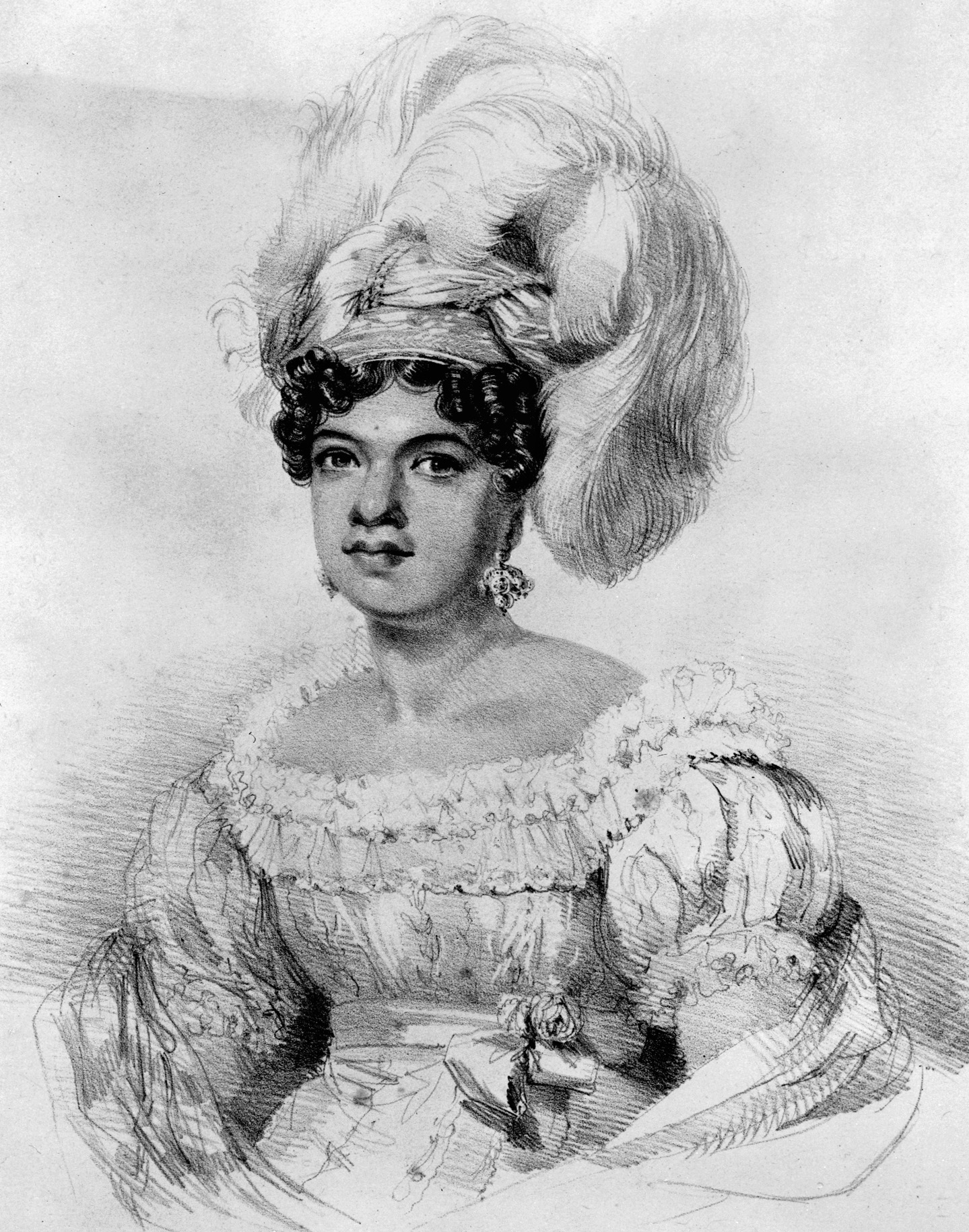 Queen Kamāmalu of the Hawaiian islands. She died only a few weeks after this scketch was made in June 1824, while on a trip to London waiting for an audience with King George III.